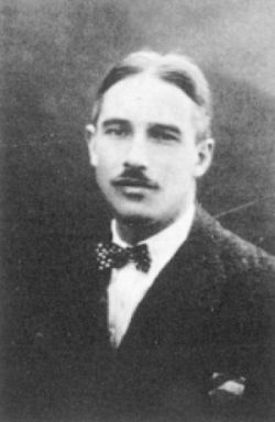 François de Loys (1892-1935). Swiss oil exploration geologist